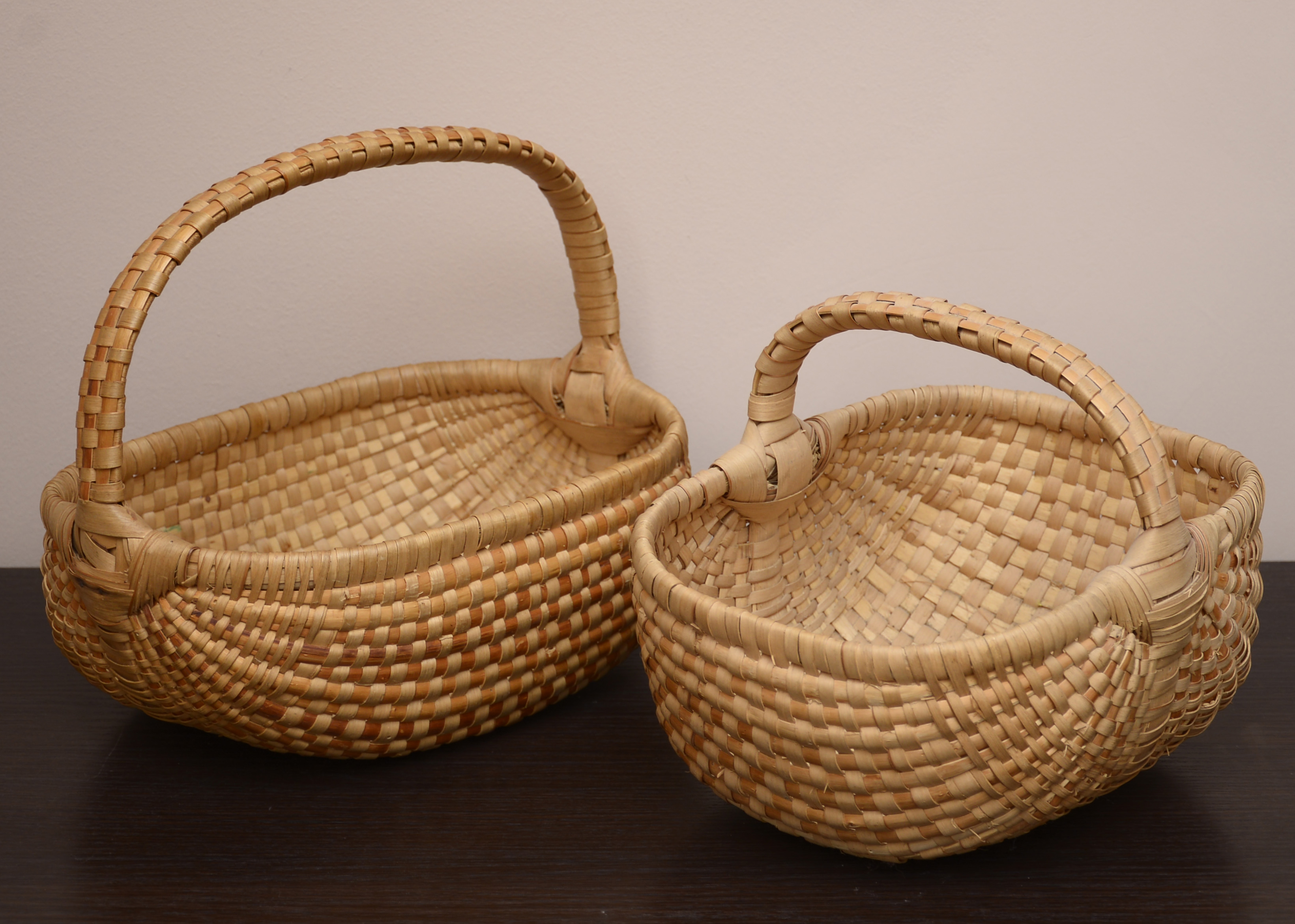 File presents two types of small baskets produced in Polish village Zawadka Osiecka